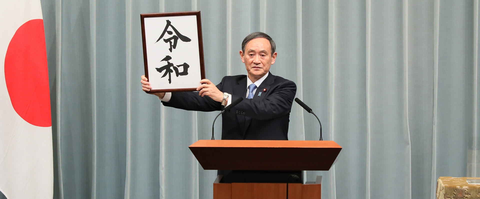 Yoshihide Suga, announcing new imperial era, "Reiwa", to reporters.